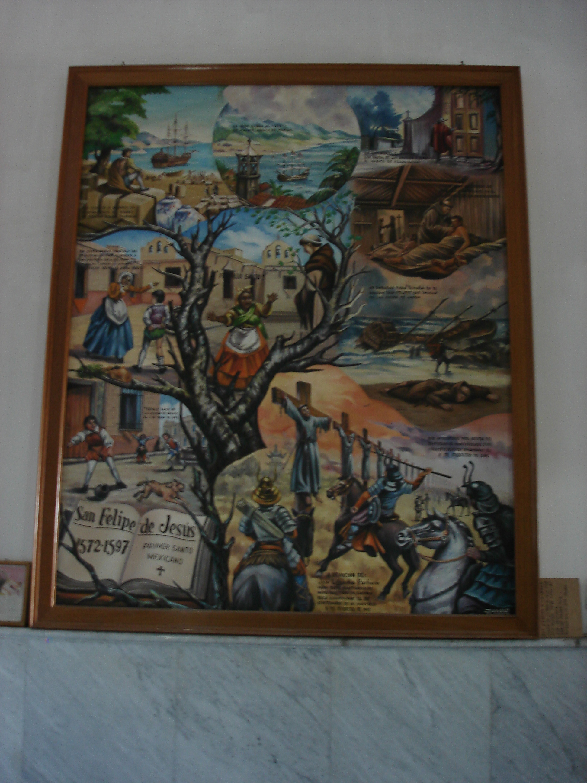 Picture featuring the life of San Felipe de Jesús.